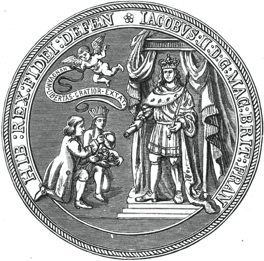 Seal of the Dominion of New England from 1686 to 1689, which was ordered by King James II of England. The inscription around the edge is an abbreviation for Iacobus Secundus Dei Gratia Magnae Britanniae, Franciae et Hiberniae Rex, Fidei Defensor ("James the Second, by the grace of God, of Great Britain, France and Ireland, King, Defender of the Faith"), the monarch's full title, an inscription which was also on the Great Seal of the Realm. The motto of the dominion was Nunquam libertas gratior extat, taken from a Claudian quote of Nunquam libertas gratior extat Quam sub rege pio ("Never does liberty appear in a more gracious form than under a pious king").